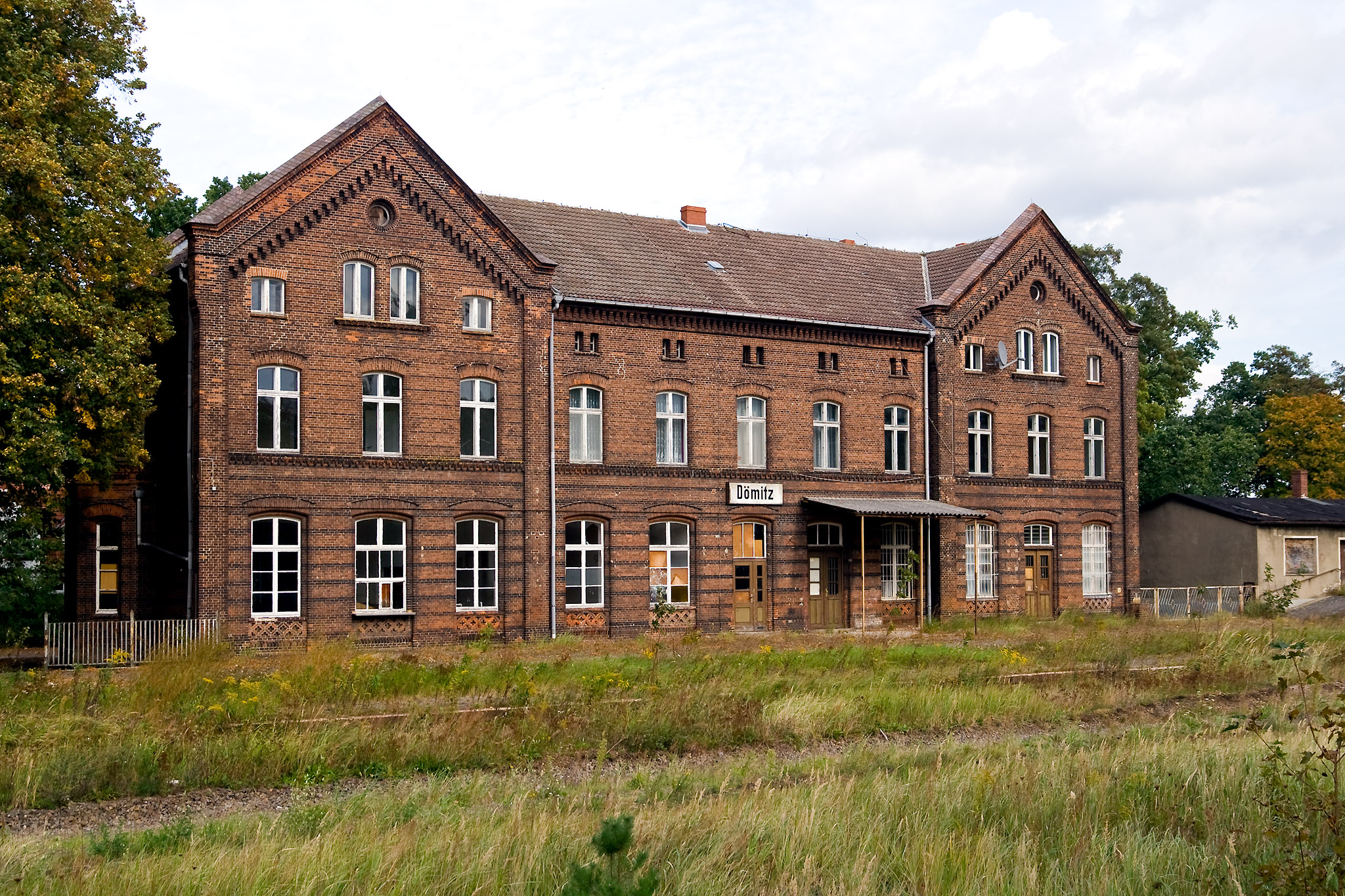 Dömitz train station.